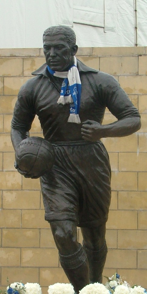 Statue of footballer Dixie Dean, located at Goodison Park, Liverpool, UK